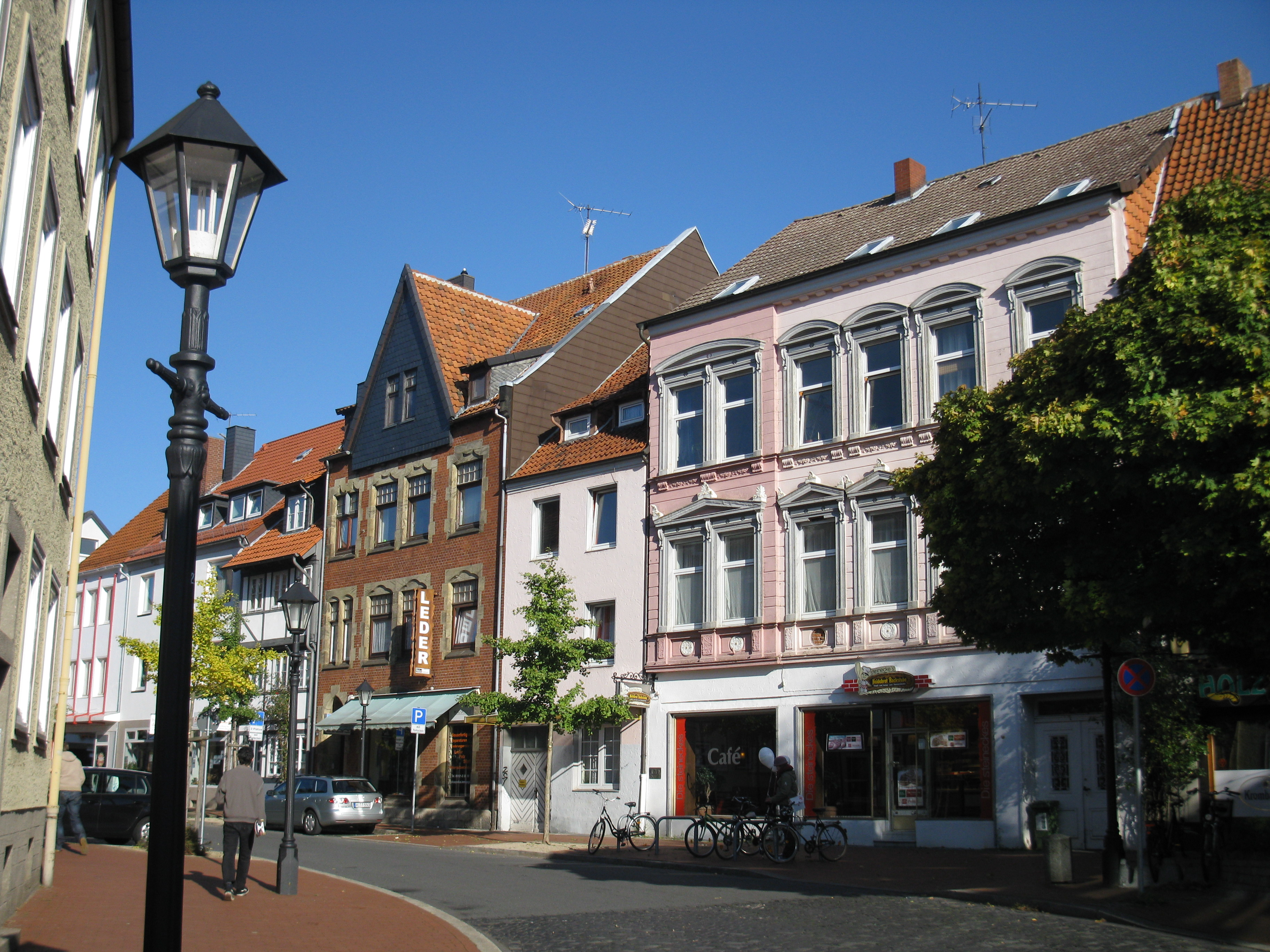 Wollenweber Street, Hildesheim